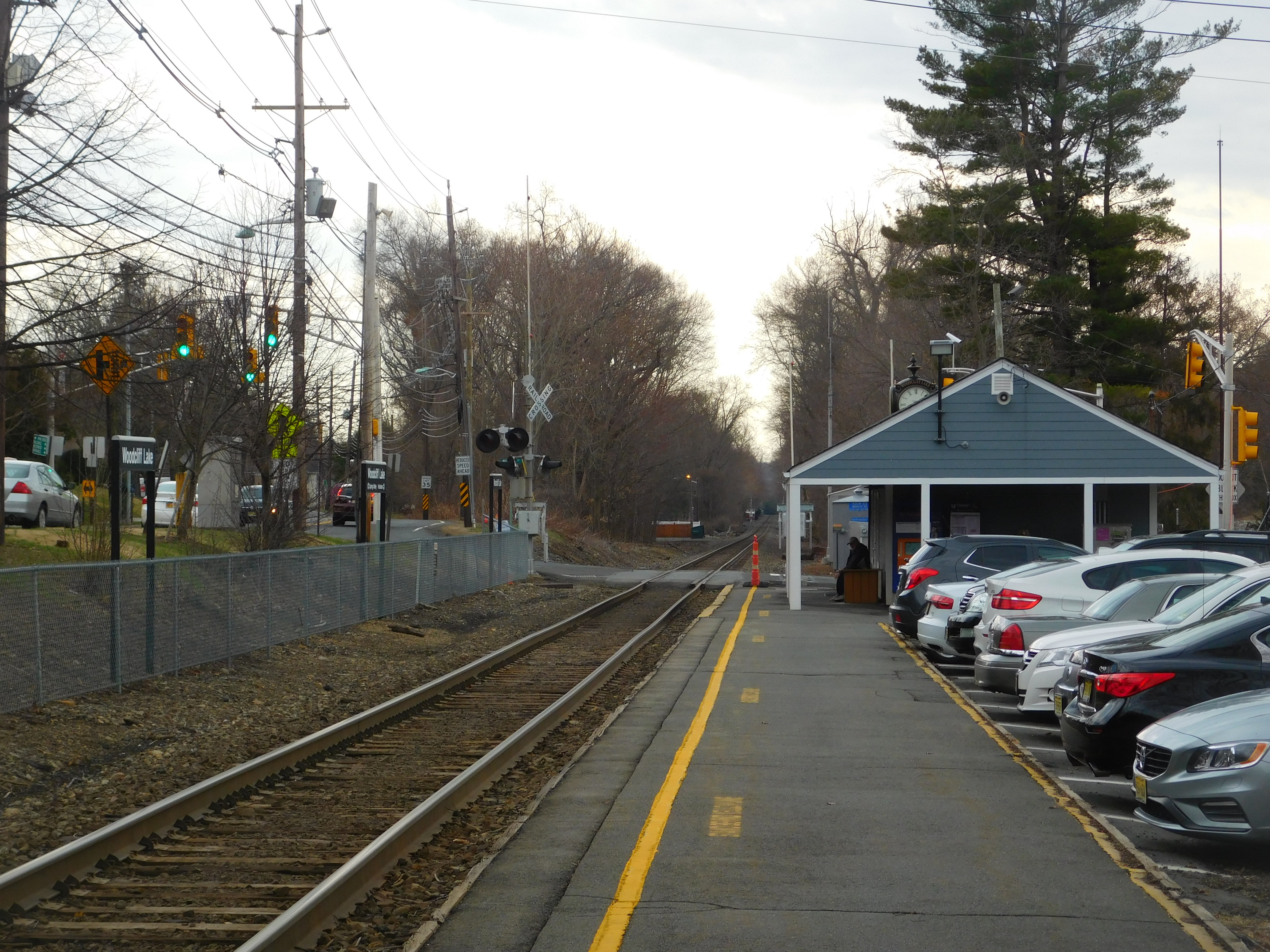 Woodcliff Lake station in April 2018 post-restoration.